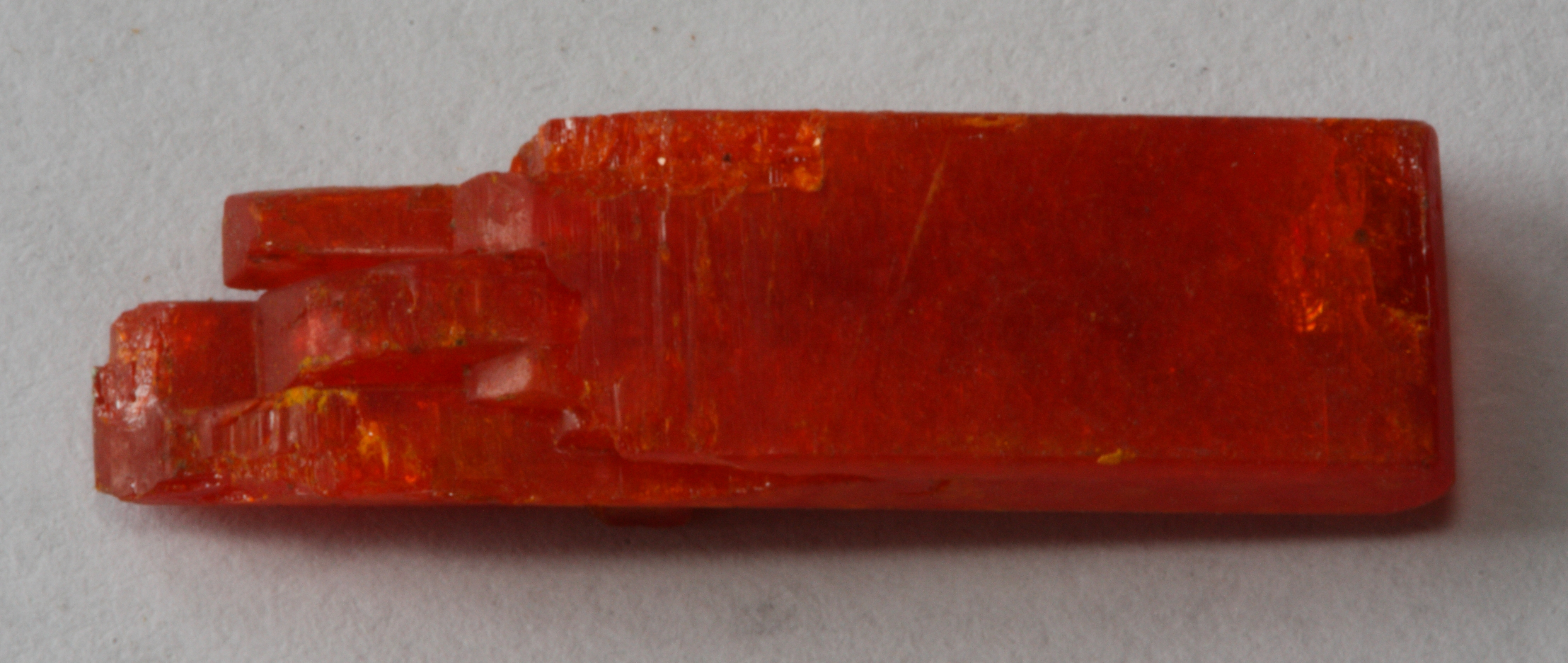 A sample of potassium dichromate, also known as the mineral lopezite. About 10 mm long, probably synthetically grown.